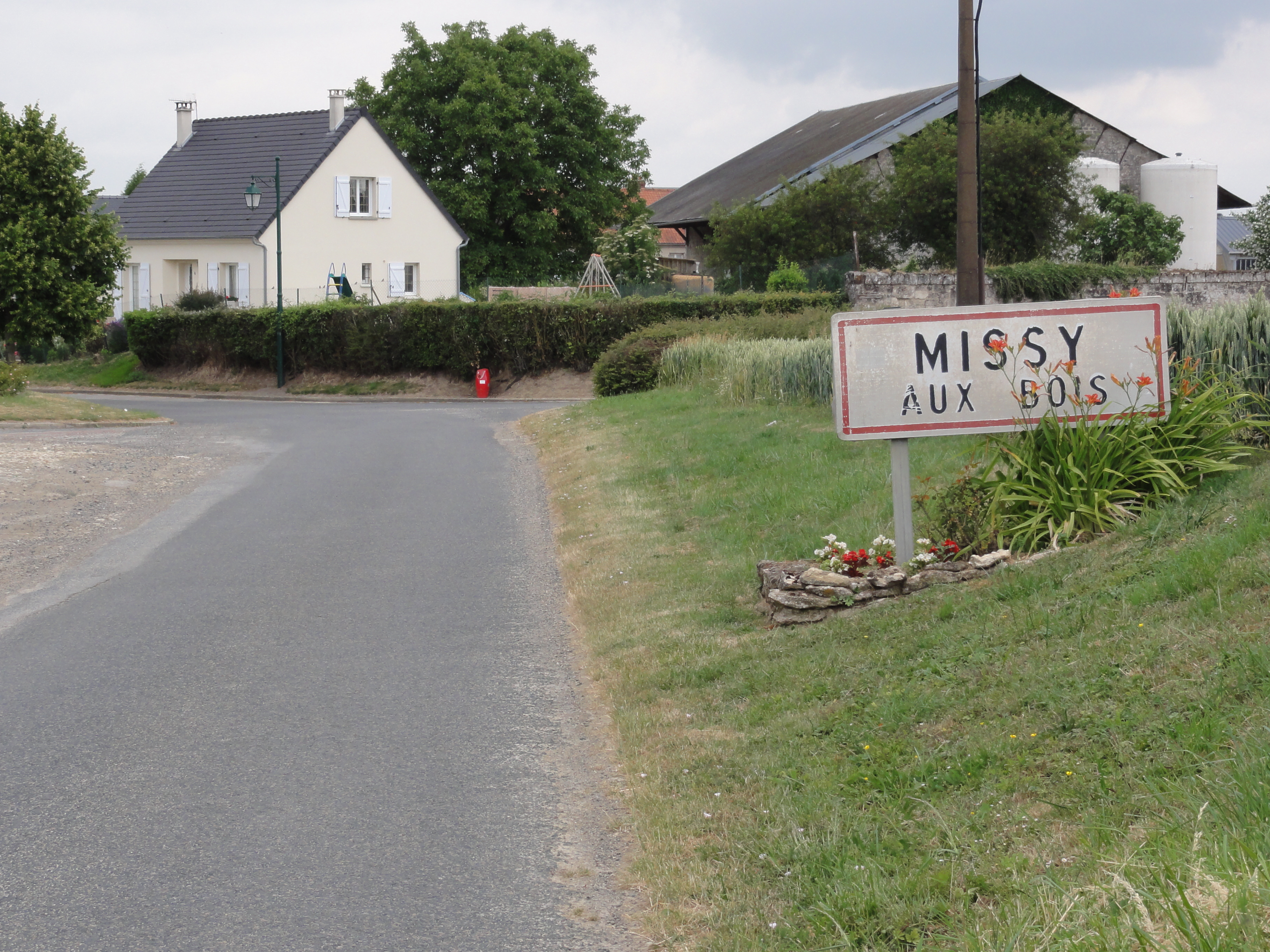 Missy-aux-Bois (Aisne) city limit sign